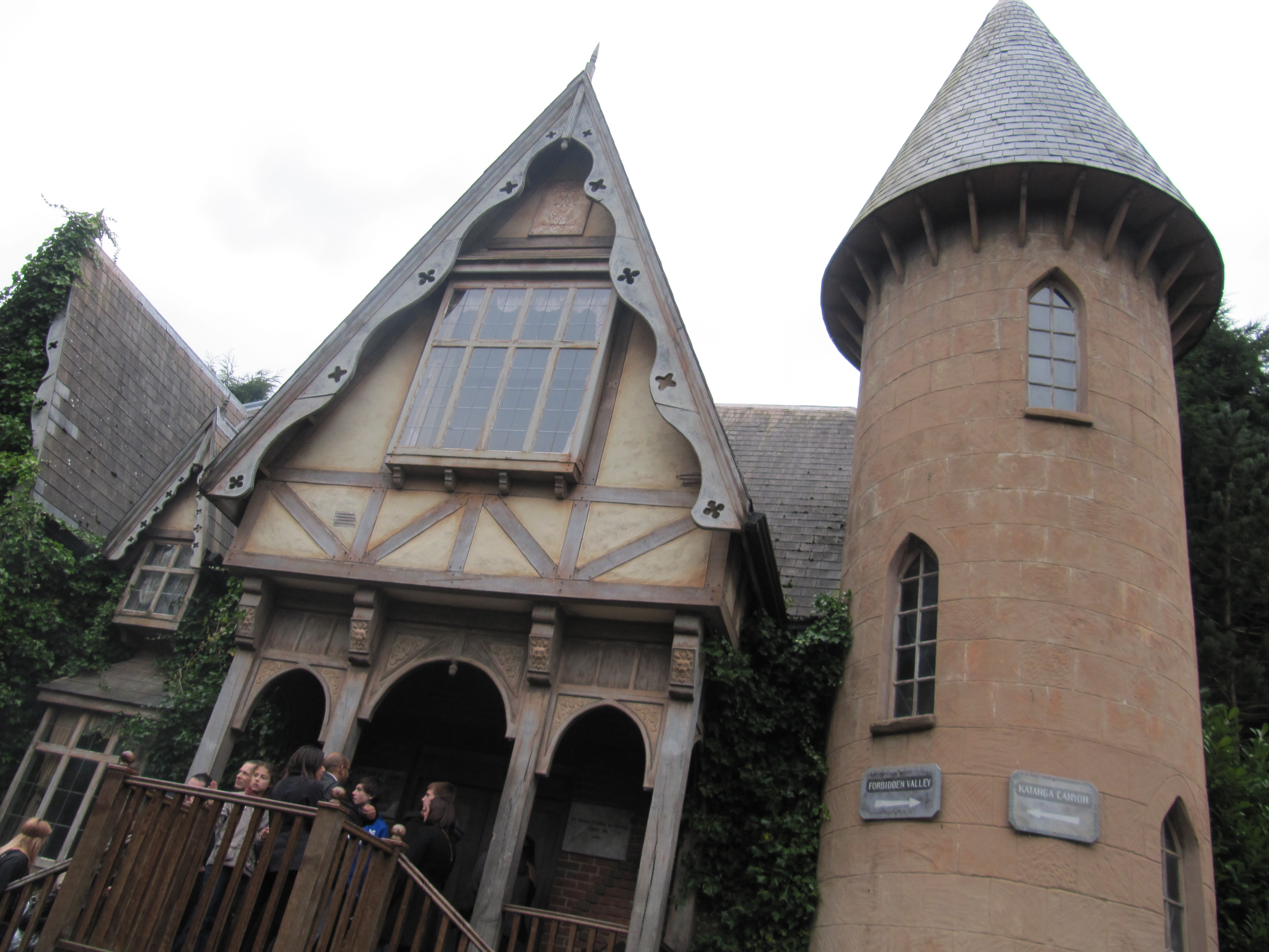 The front of Duel at Alton Towers. Taken by me in October 2009. I give permission for this to be used on the Duel (ride) page. Woombamillio (talk) 13:43, 5 August 2010 (UTC)